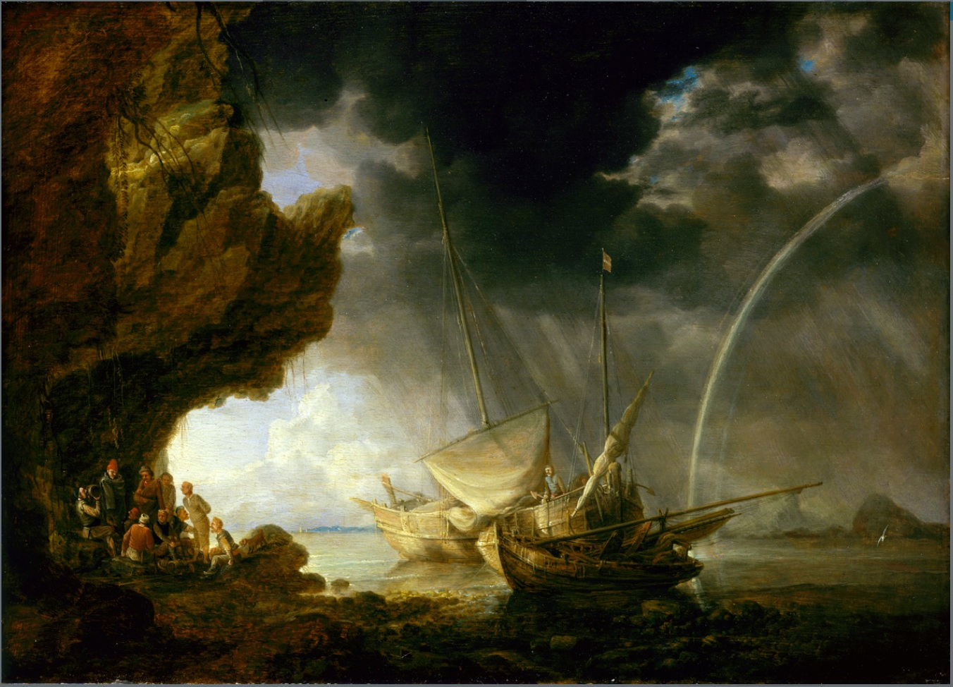 TA group of sailors huddle, in a cave, beneath a rugged cliff. Torrential rain falls diagonally from the thick black clouds which hover menacingly above. A smooth, flat sea is rendered in silvery-grey tones. While darker areas suggest the shadows of the boats. Additionally, pale brown and green areas in the shallows hint at the emergence of rocks from beneath the surface of the water. The sailors, on the left, are composed into a tight group. Interactions between them are intimated by facial expressions and physical gestures. They are variously occupied. On the far left one drinks from a barrel. Next to him a man huddles wrapped in a shawl. While other figures stand nearby or are seated. They are accompanied by a small dog on the right. One of the seated figures is looking out towards a sailor, who remains on one of the boats. He, in turn, looks over towards the sheltering group. Their boats, with sails lowered and furled, are anchored in the shallow water. While, previously, the figures have been interpreted as smugglers sheltering from a storm, a more convincing reading suggests that they are in fact fishermen. Their humble appearance lends to the idea that Peeters’s intention was to portray them as quasi-heroic figures, happily living an idealized, rural existence.